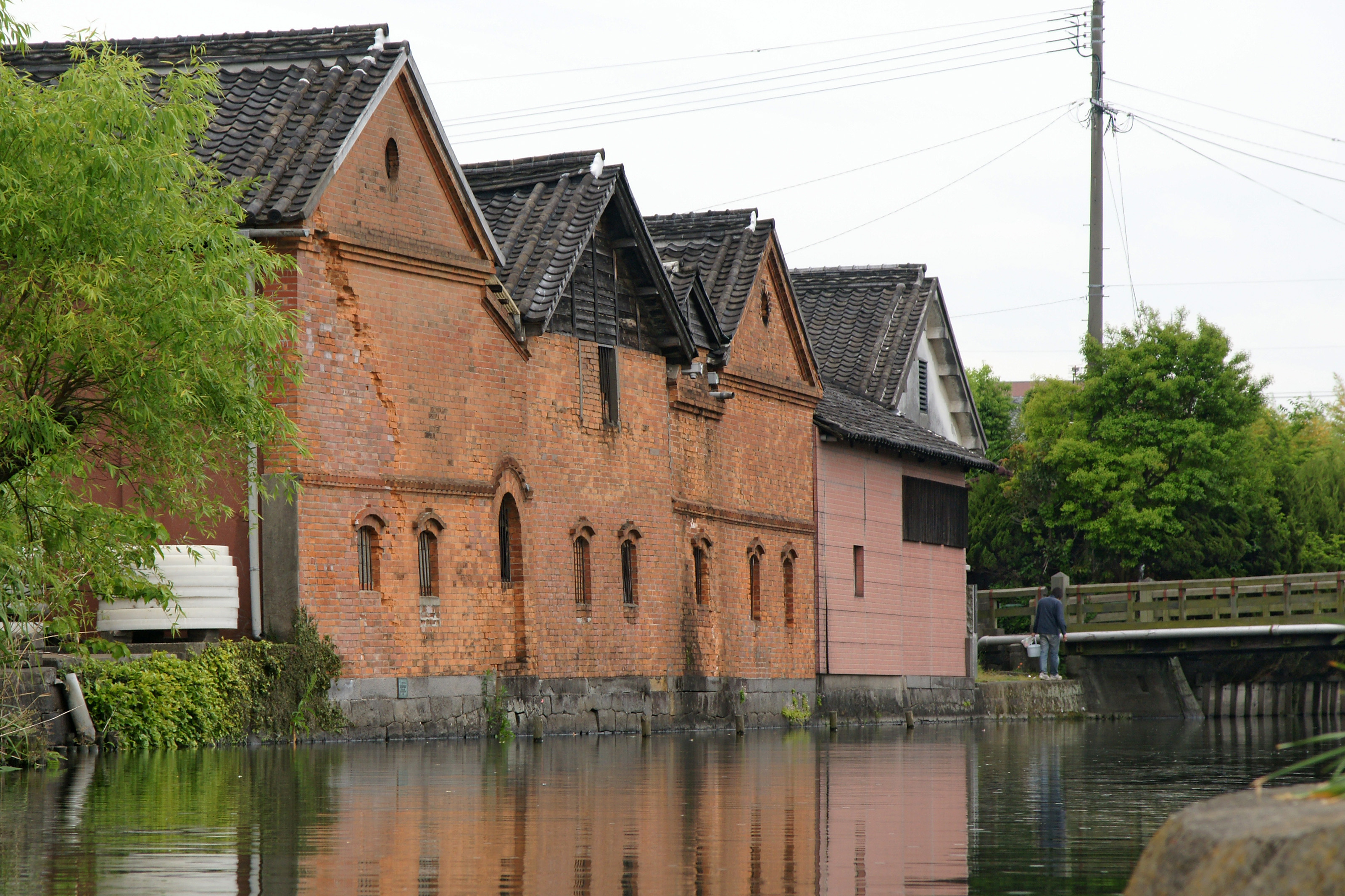 Yanagawa, Fukuoka prefecture, Japan